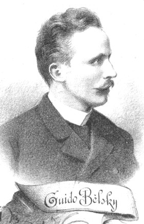 Portrait of Quido Bělský (1855-1909), Czech architect.